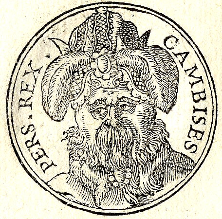 Cambyses II was the son of Cyrus the Great (r. 559-530 BC), founder of the Persian Empire and its first dynasty.